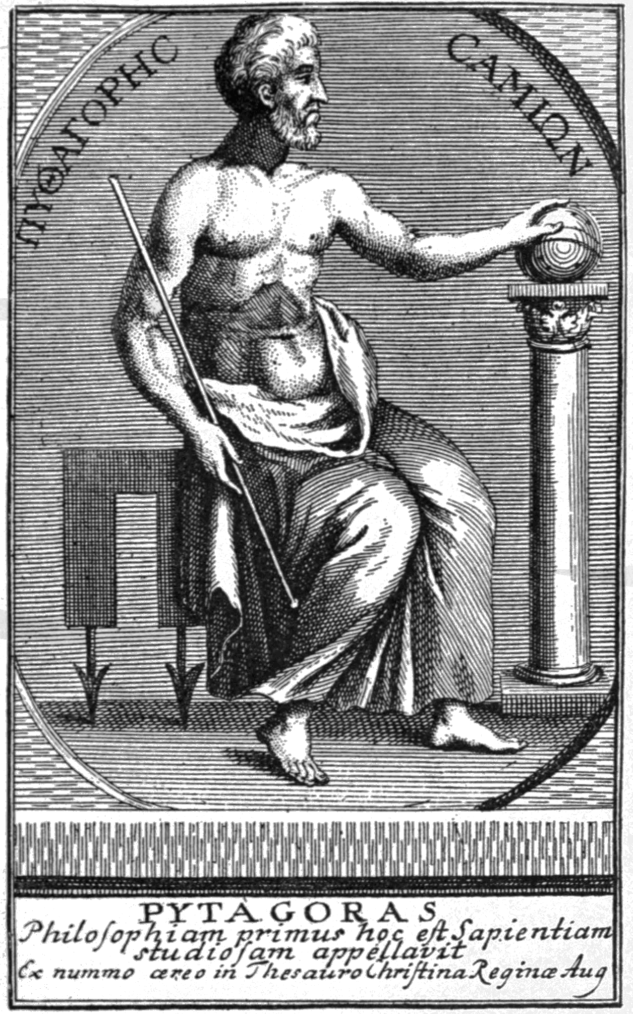 Pythagoras